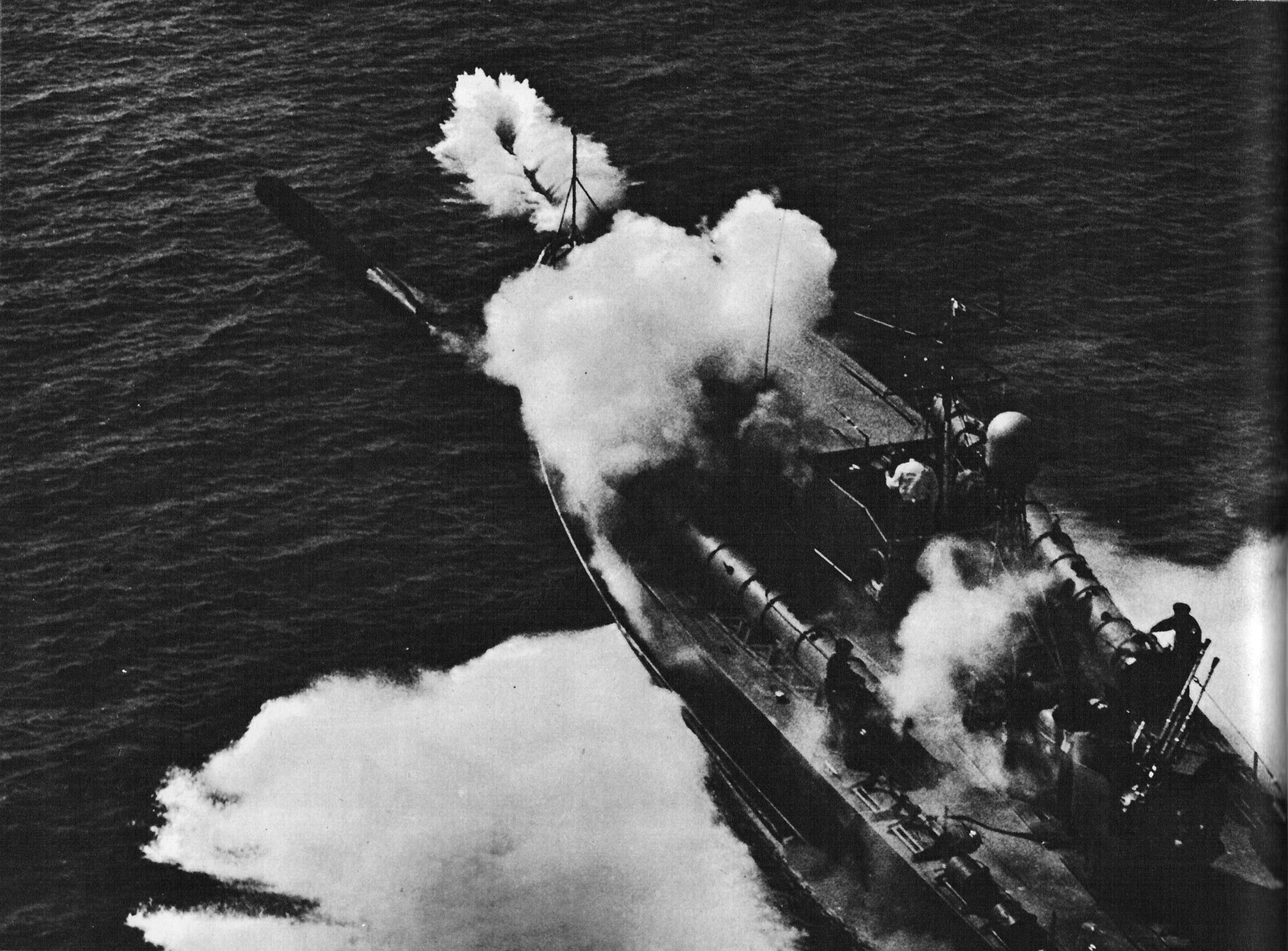 Torpedo fire from Polish torpedo boat proj. 183